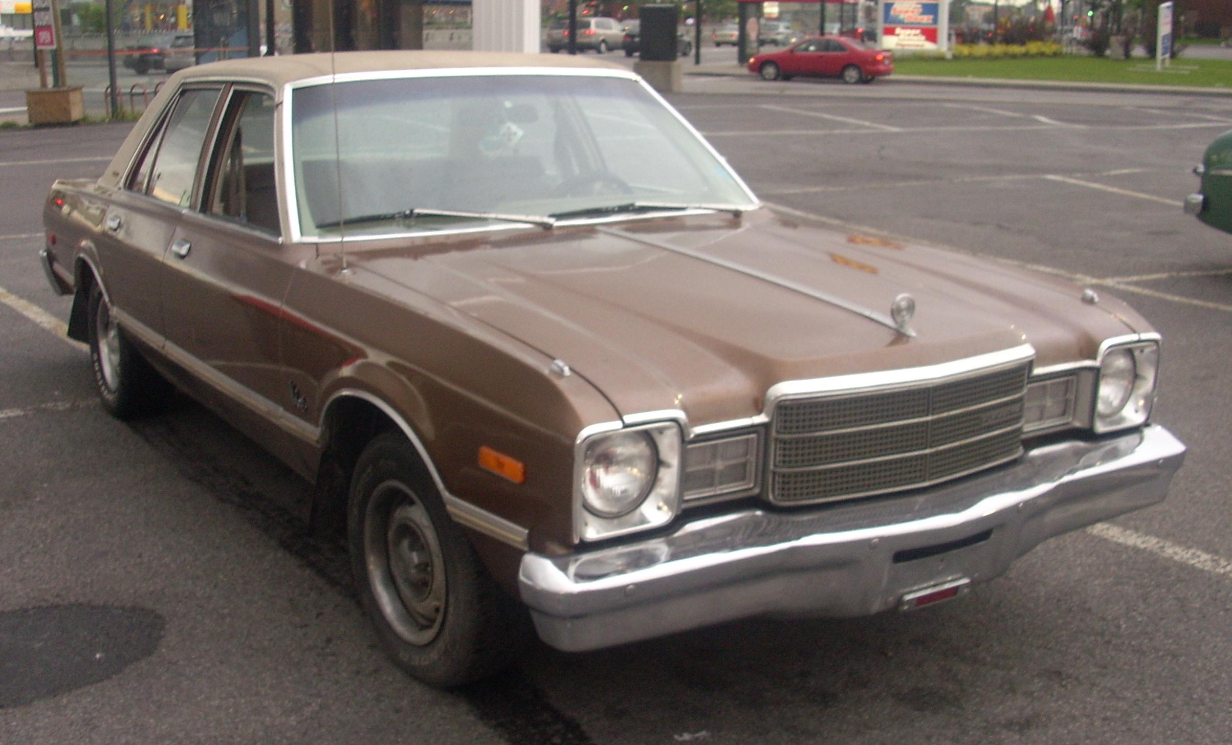 1977 Plymouth Volare photographed in Montreal, Quebec, Canada at Gibeau Orange Julep.